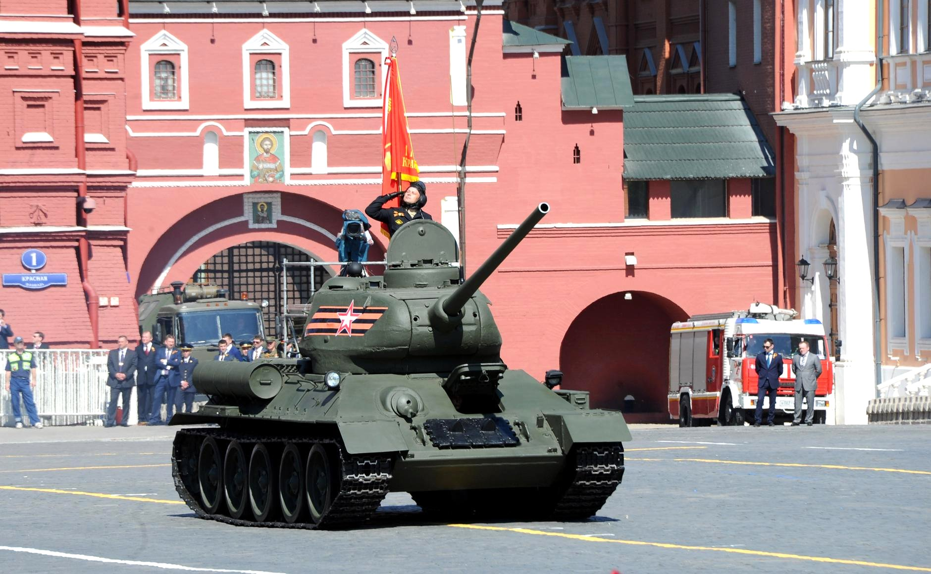 Military parade on Red Square 2016-05-09